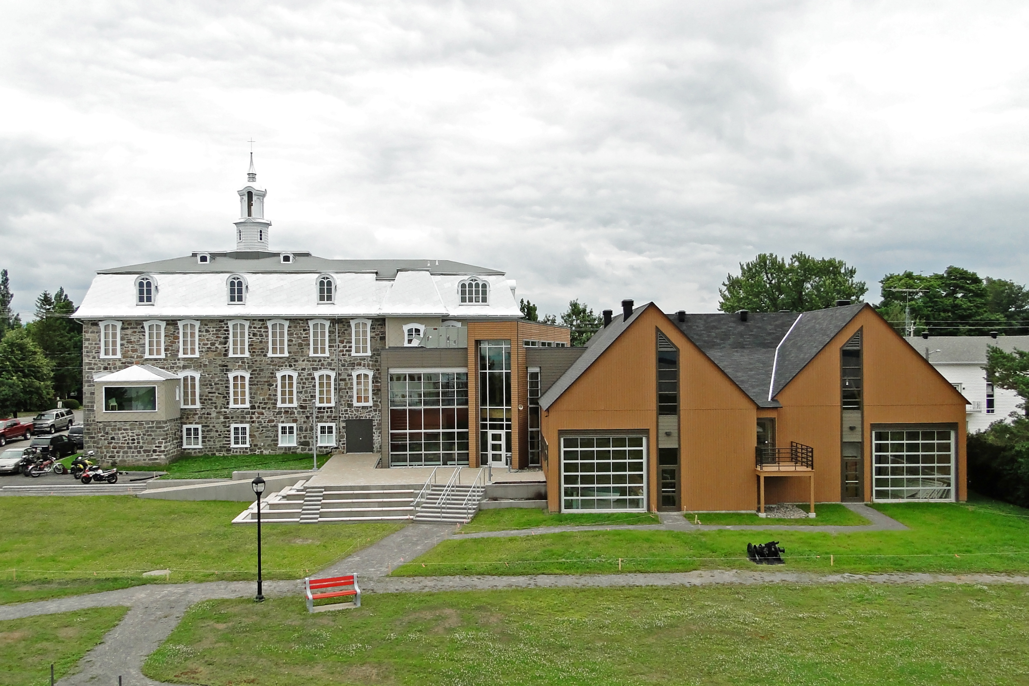 Musée maritime du Québec (back facade), l'Islet, Province of Quebec, Canada